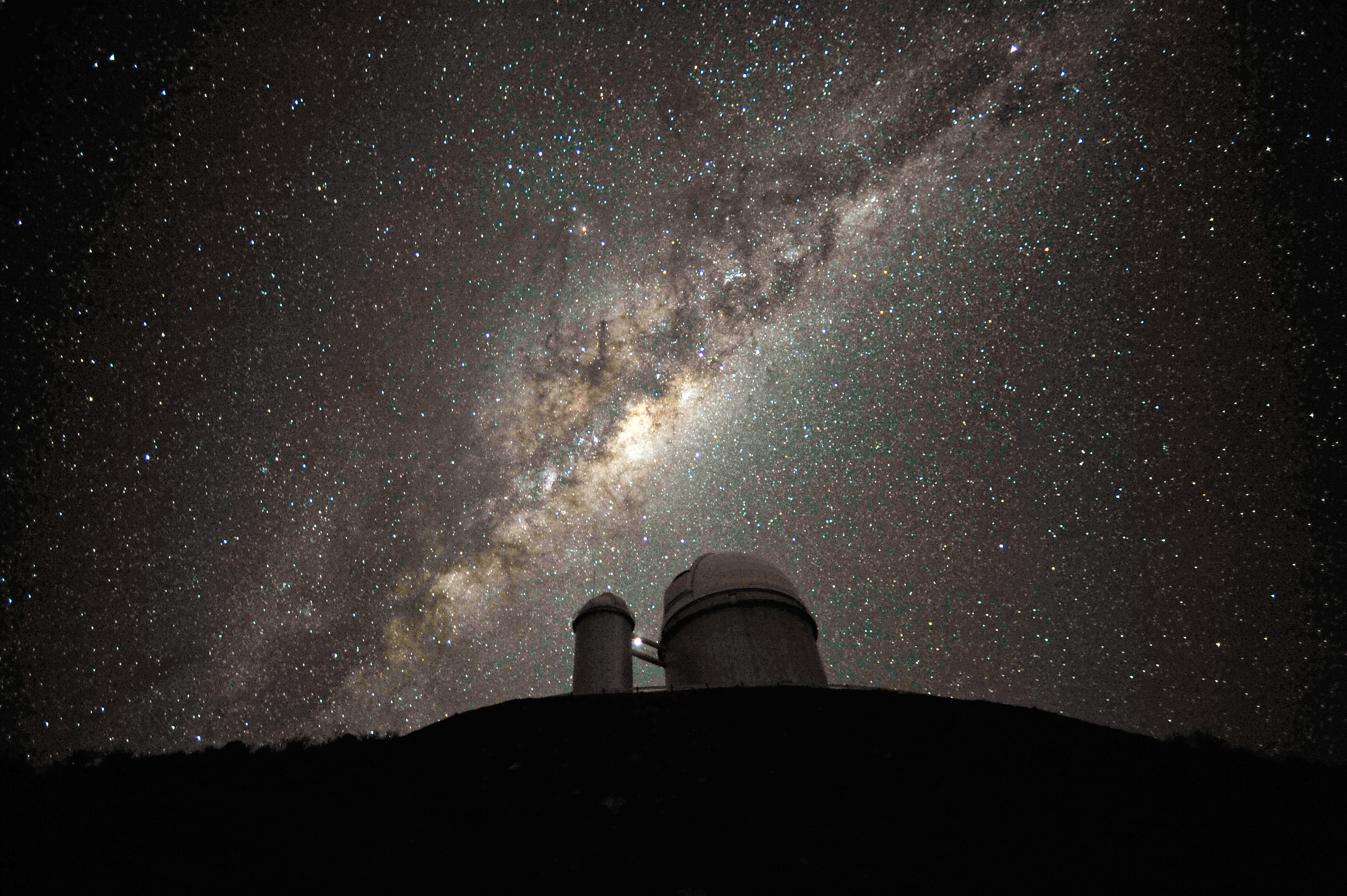 The ESO 3.6-metre telescope at La Silla, during observations. The Milky Way, our own galaxy, stretches across the picture: it is a disc-shaped structure seen perfectly edge-on. Above the telescope´s dome, here lit by the Moon, and partially hidden behind dark dust clouds, is the yellowish and prominent central bulge of the Milky Way. The whole plane of the galaxy is populated by about a hundred thousand million stars, as well as significant amounts of interstellar gas and dusts. The dust absorbs visible light and reemits it at longer wavelength, appearing totally opaque at our eyes. The ancient Andean civilizations saw in these dark lanes their animal-shaped constellations. By following the dark lane which seems to grow from the centre of the Galaxy toward the top, we find the reddish nebula around Antares (Alpha Scorpii). The Galactic Centre itself lies in the constellation of Sagittarius and reaches its maximum visibility during the austral winter season. The ESO 3.6-metre telescope, inaugurated in 1976, currently operates with the HARPS spectrograph, the most precise exoplanet “hunter” in the world. Located 600 km north of Santiago, at 2400 metres altitude in the outskirts of the Chilean Atacama Desert, La Silla was first ESO site in Chile and the largest observatory of its time.